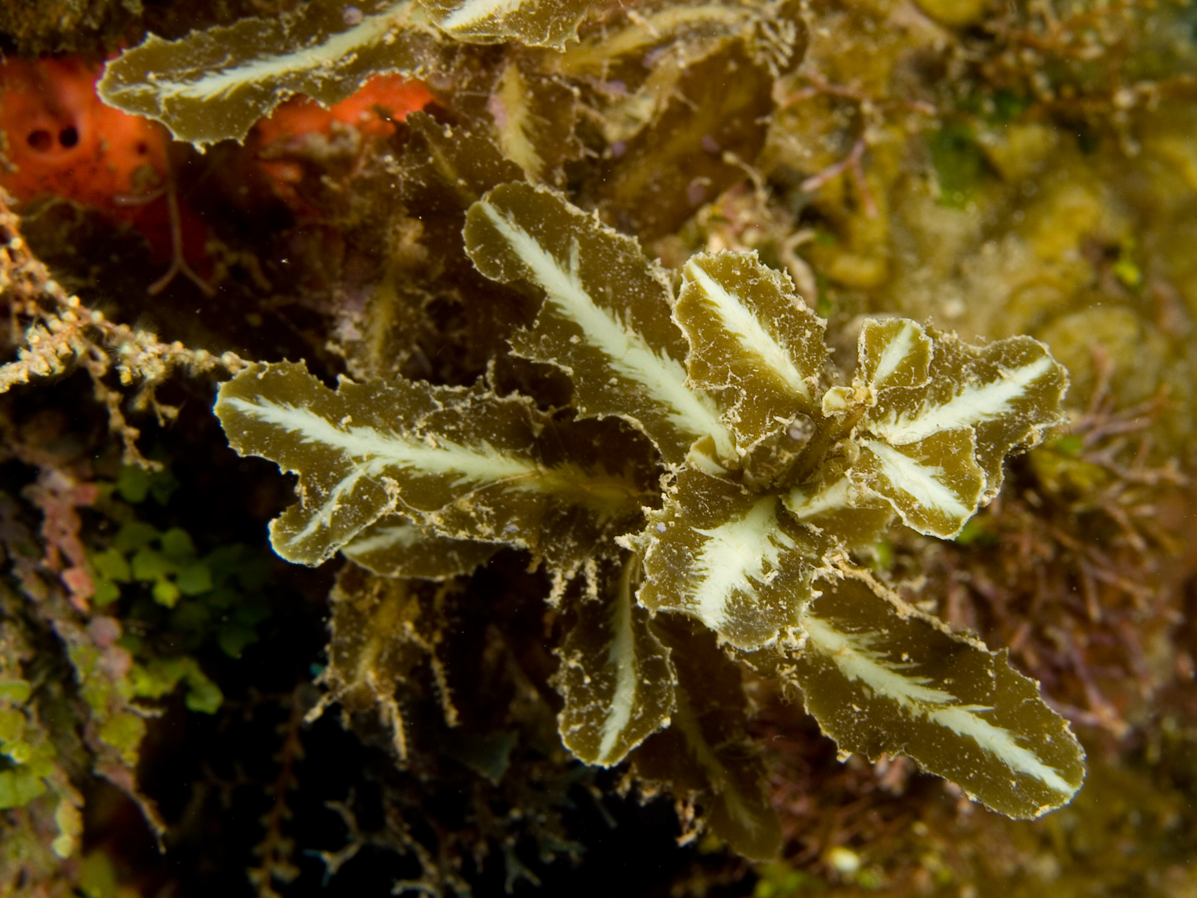 Sargassum hystrix (White-vein Sargassum Algae)